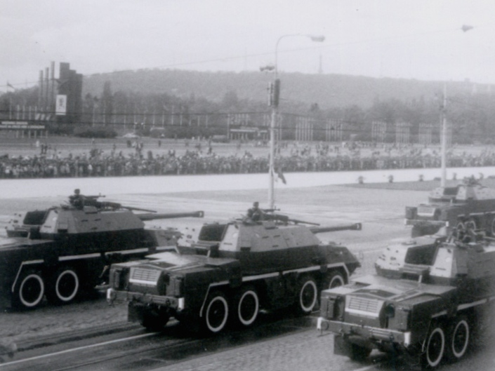 Czechoslovak military parade in Prague, 9th of May, 1985.